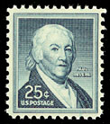 US stamp honoring Paul Revere